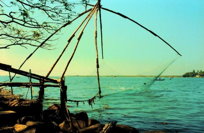 This photograph was taken in Cochin, Kerala and depicts the fishing nets used by fishermen in Cochin. The fishing nets are called as "Cheena valla" in Malayalam language (meaning 'chinese fishing nets'), as they were influenced by the chinese traders, who used to trade with the ancient port city of Cochin.